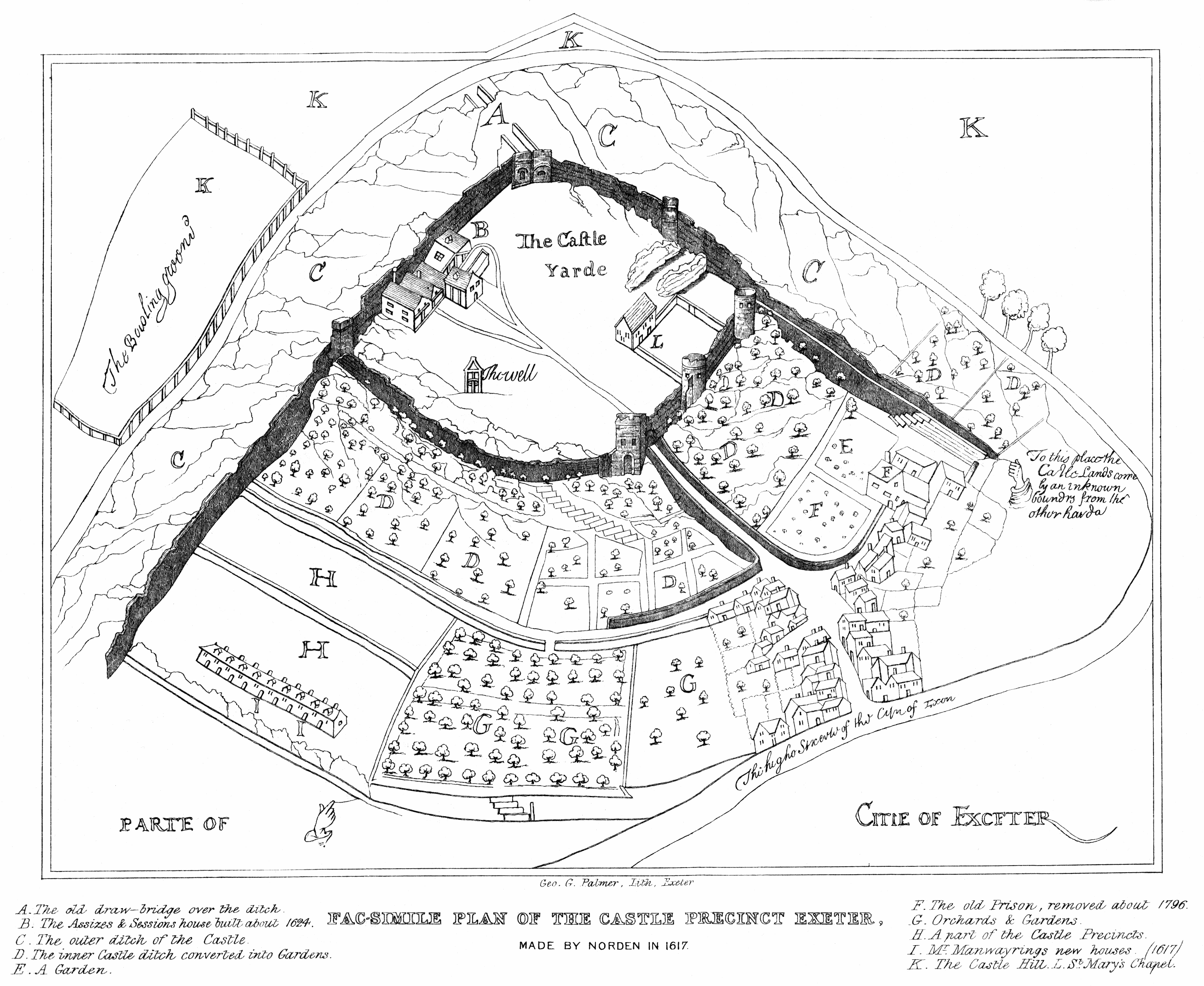 Plan of Rougemont Castle in Exeter, Devon, England by John Norden, 1617, with text additions by George Oliver, 1861.